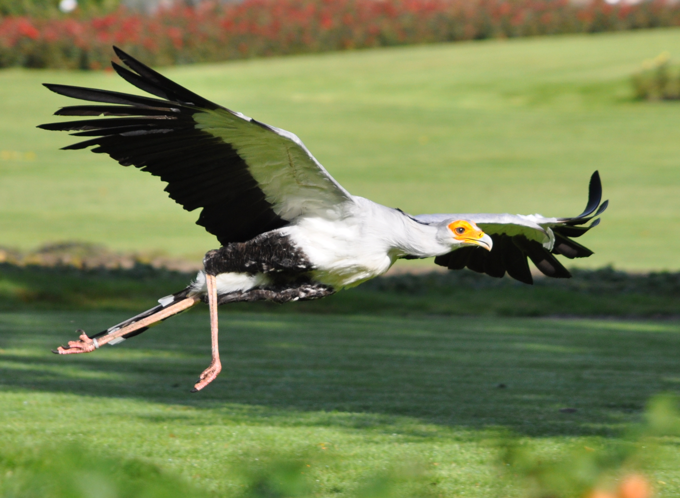 Secretary Bird (Sagittarius serpentarius) in the Walsrode Bird Park, Germany.